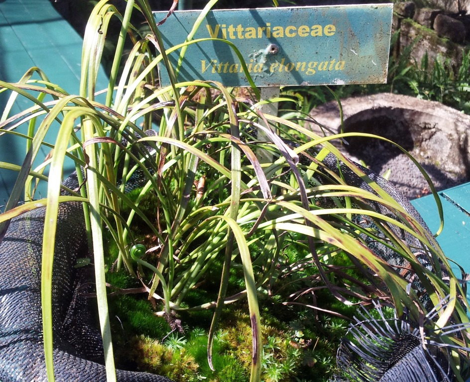 Vittaria elongata fern - Mauritius